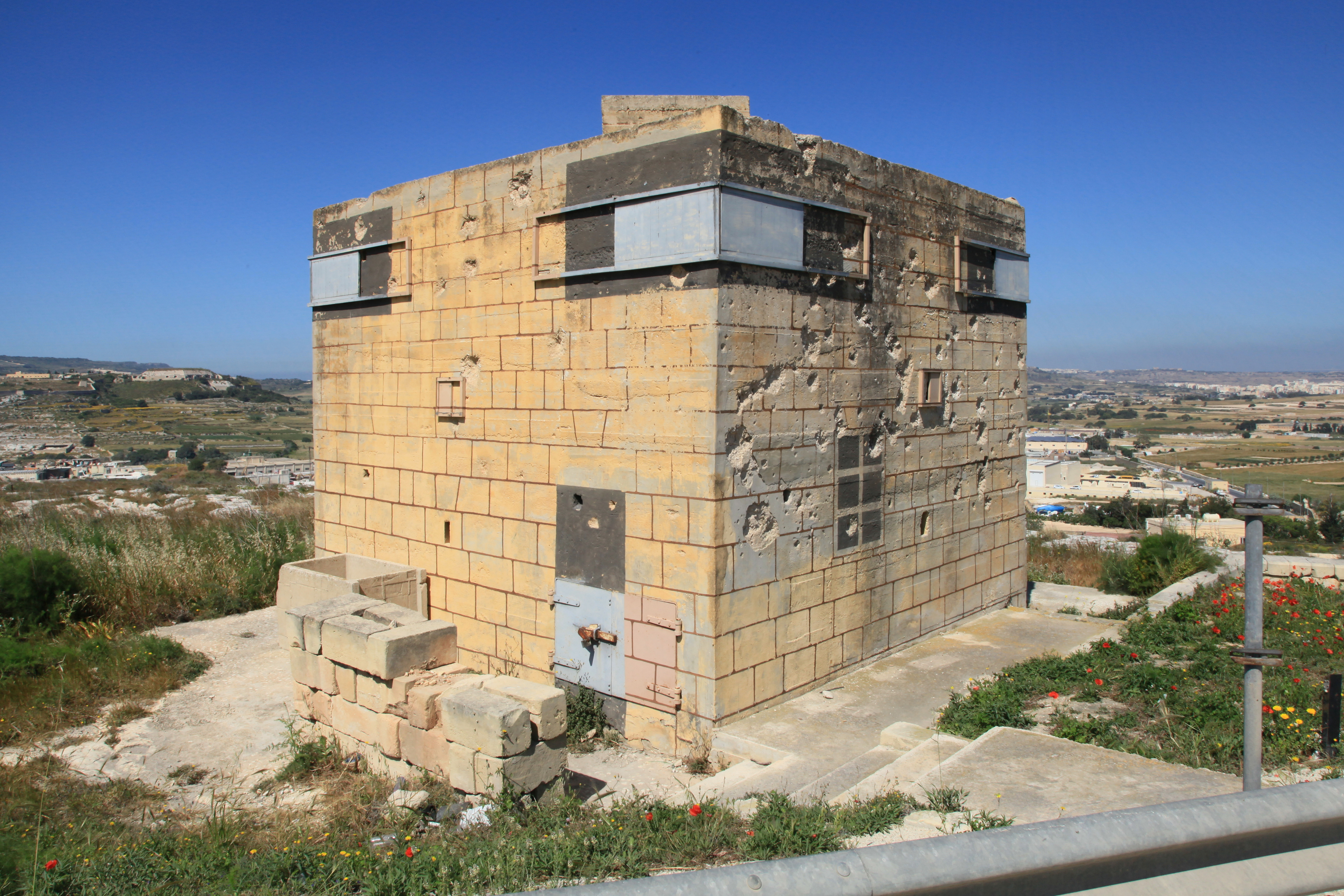 Triq is-Salina in Naxxar, Malta